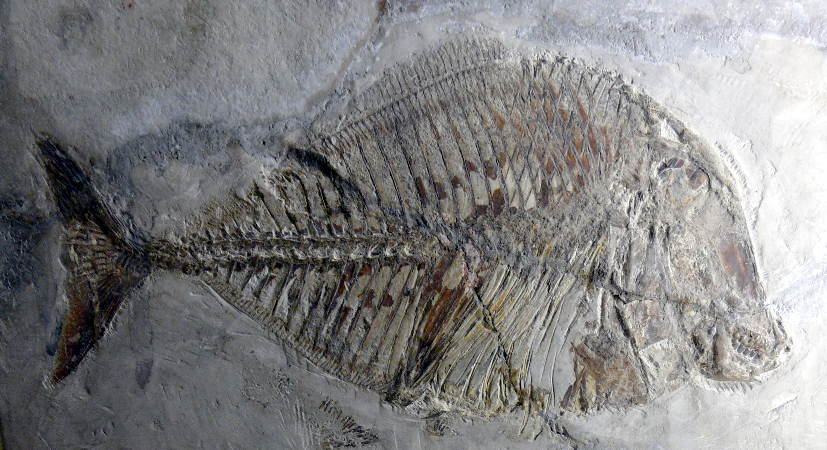 Pycnodus platessus from the Eocene, Monte Bolca, Italy